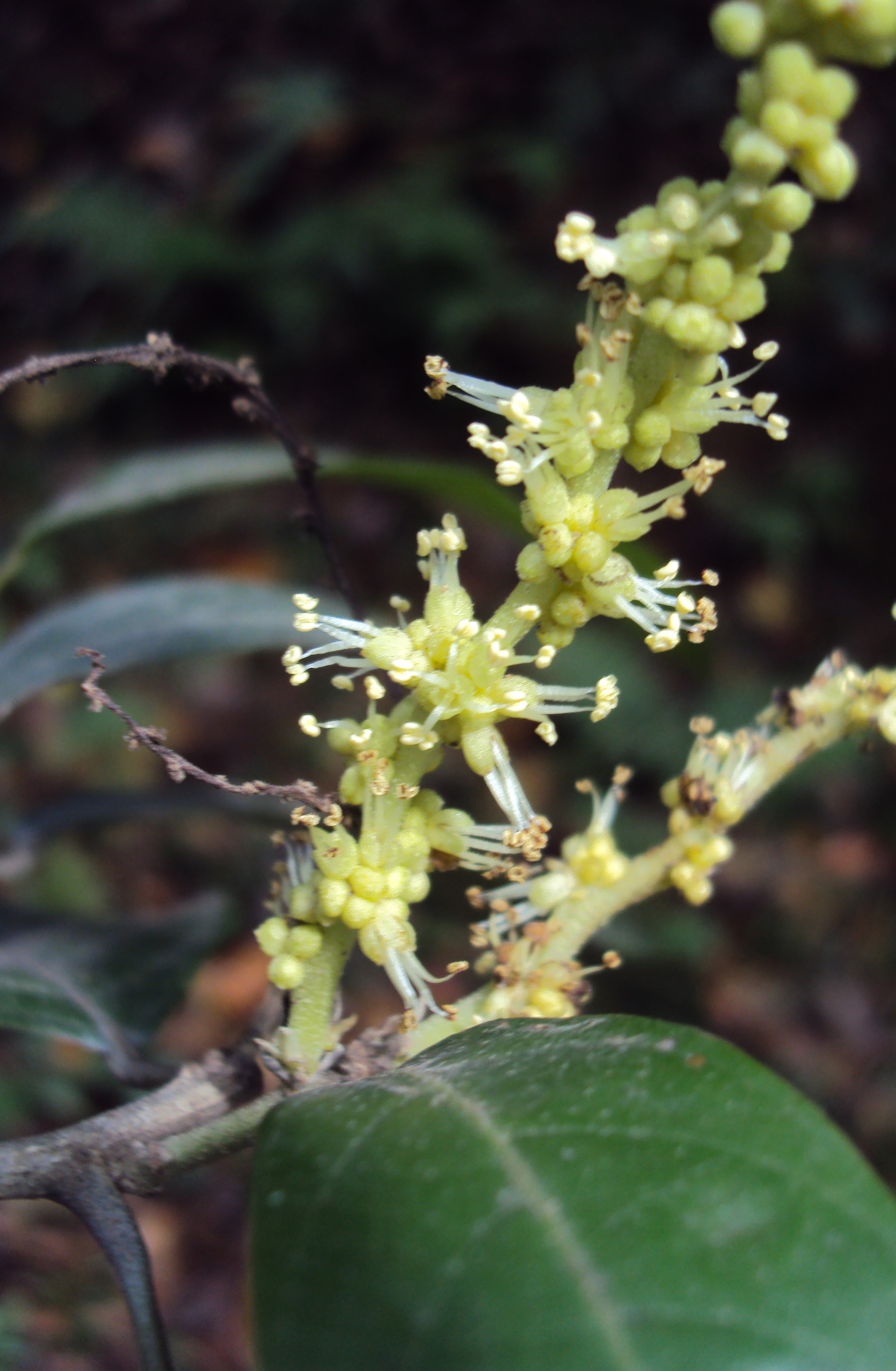 Epiprinus mallotiformis